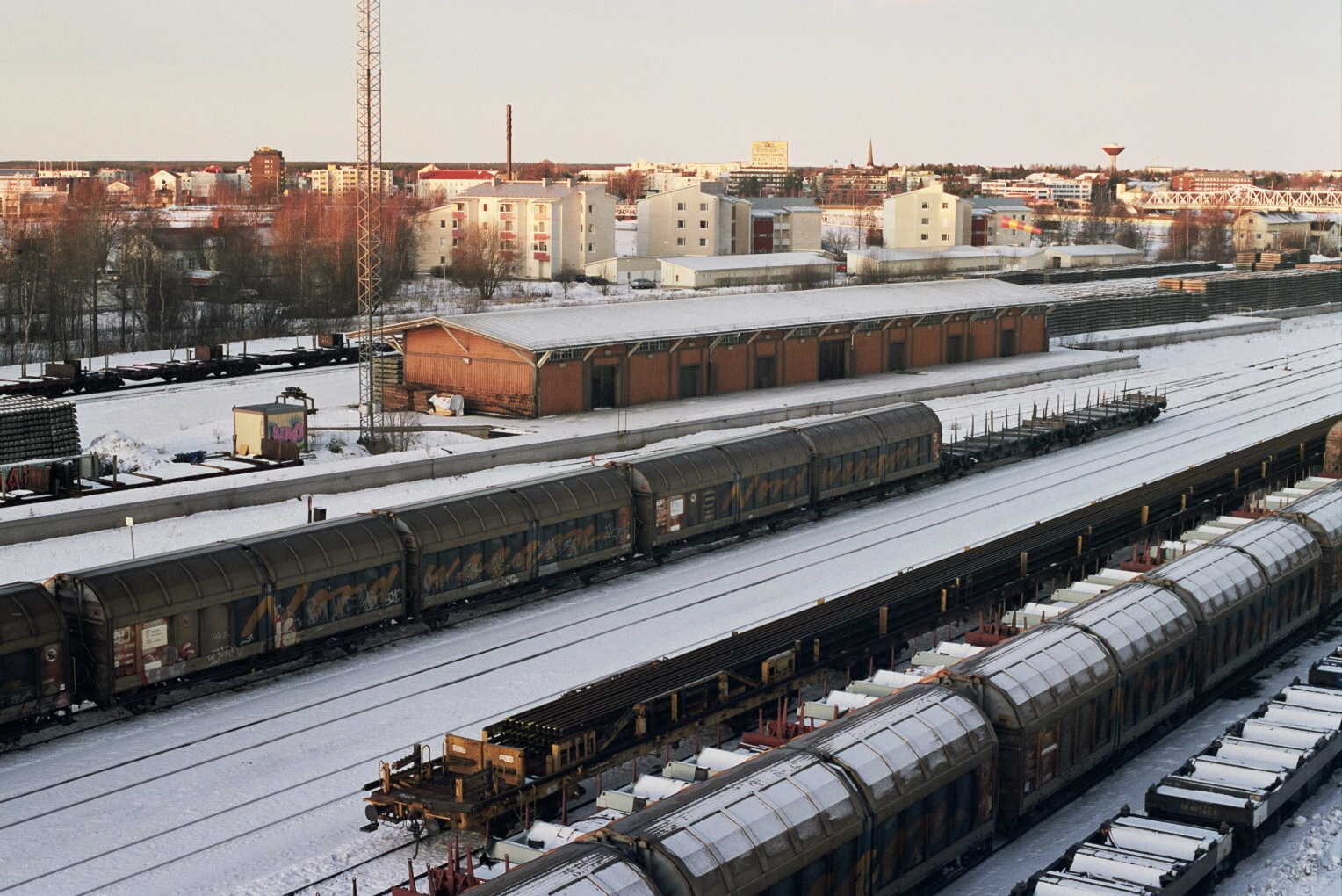 A view from the Miukki district of the city of Tornio in Finland. The photo was taken from the freight yard of VR. Seen in the distance, behind the Torne River, is the Suensaari district of the city. The wooden warehouse in the middle of the photo was destroyed by fire in 2017.